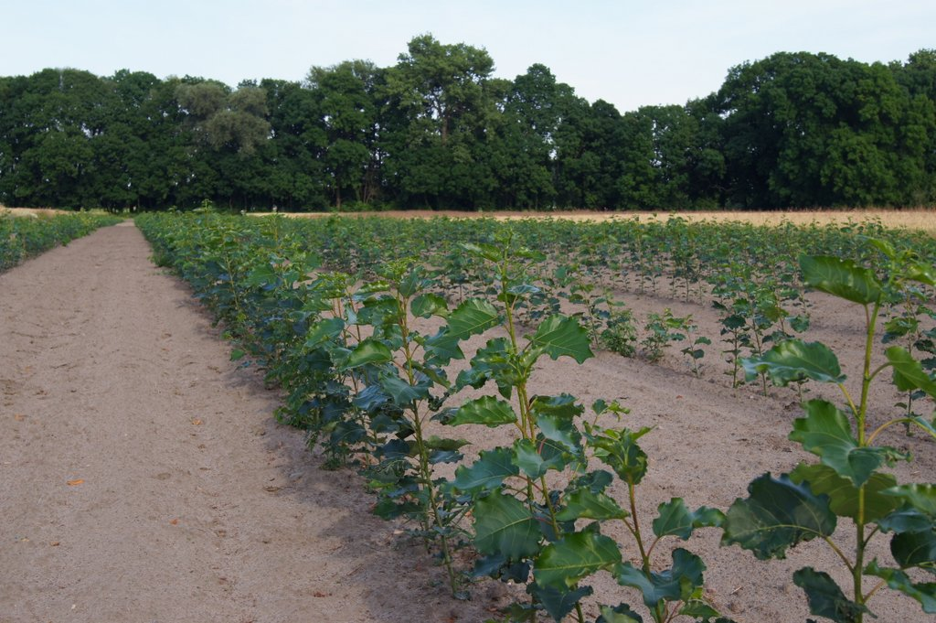 2 months old Poplar Short rotation coppice